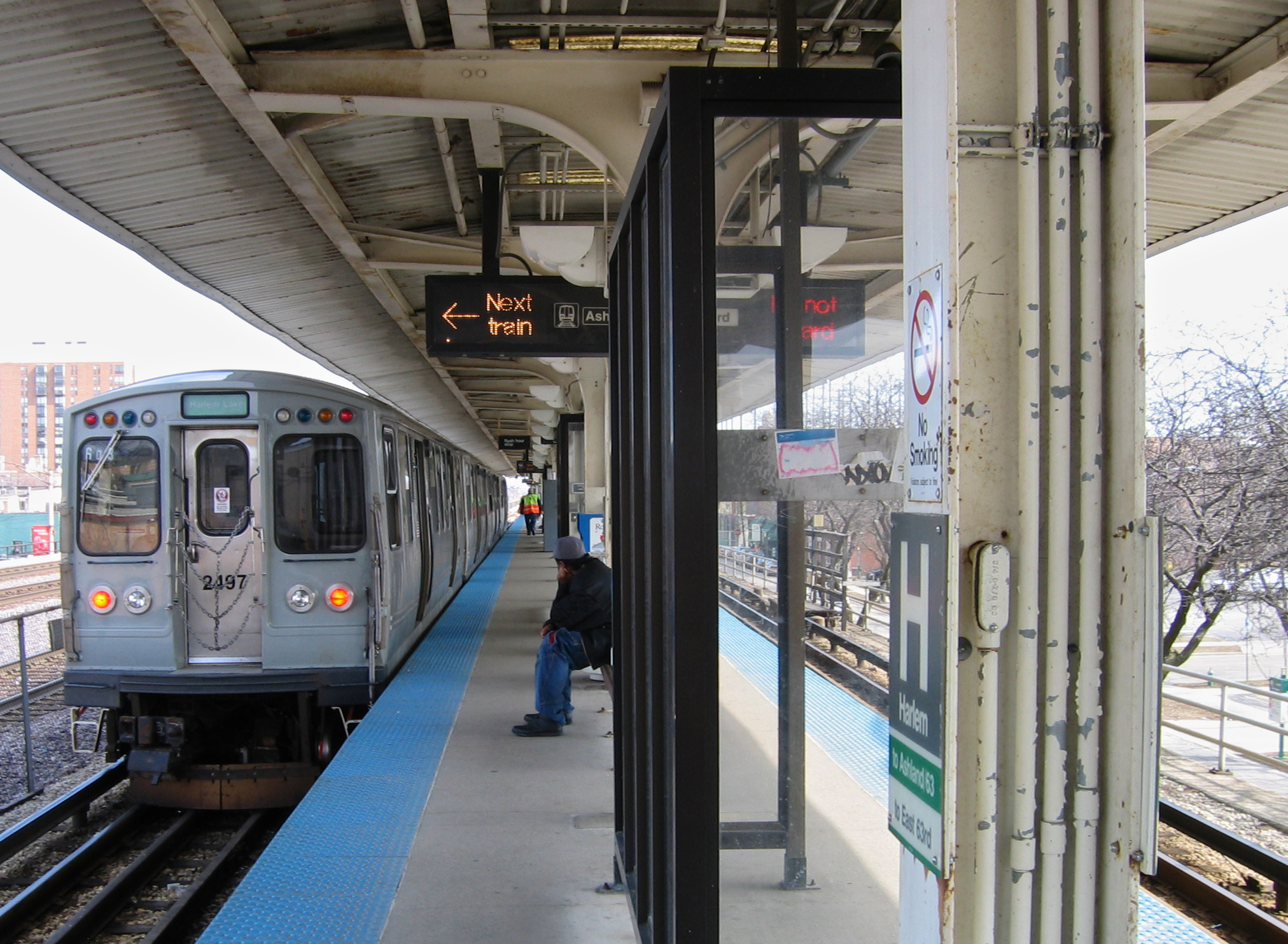 Photo by User:AudeVivere